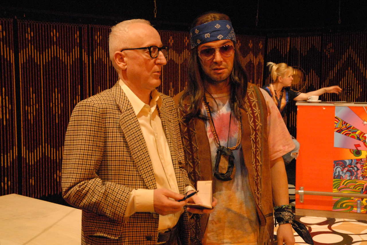 "Love Griefs of Woody Allen" written and directed by Branko Dimitrijević, Drama of the SNT, Novi Sad, 2009/10; Dragomir Pešic, Jugoslav Krajnov Srpski (latinica): "Ljubavni jadi Vudija Alena", napisao i režirao Branko Dimitrijević; Drama SNP-a, Novi Sad, 2009/10; Dragomir Pešic, Jugoslav Krajnov Српски (ћирилица): "Љубавни јади Вудија Алена", написао и режирао Бранко Димитријевић; Драма СНП-а, Нови Сад, 2009/10; Драгомир Пешић, Југослав Крајнов